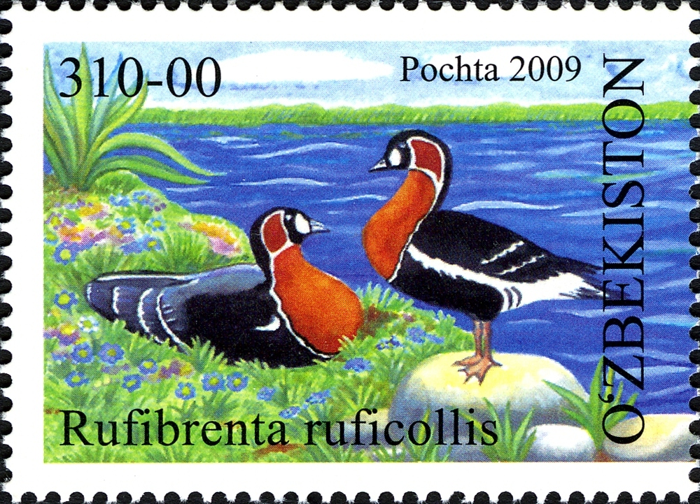 Stamps of Uzbekistan, 2009